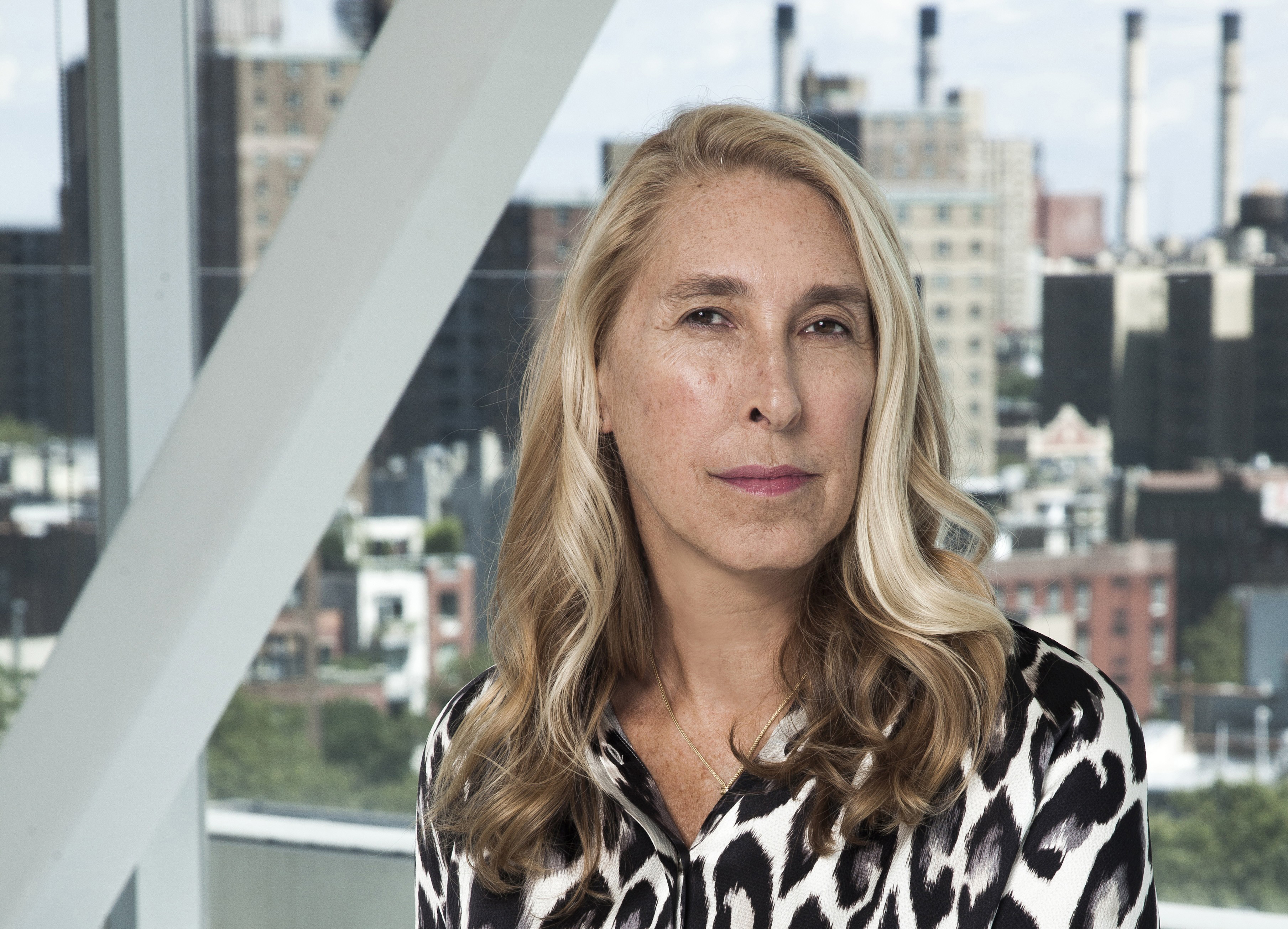 Photograph of New Museum's Toby Devan Lewis Director Lisa Phillips.